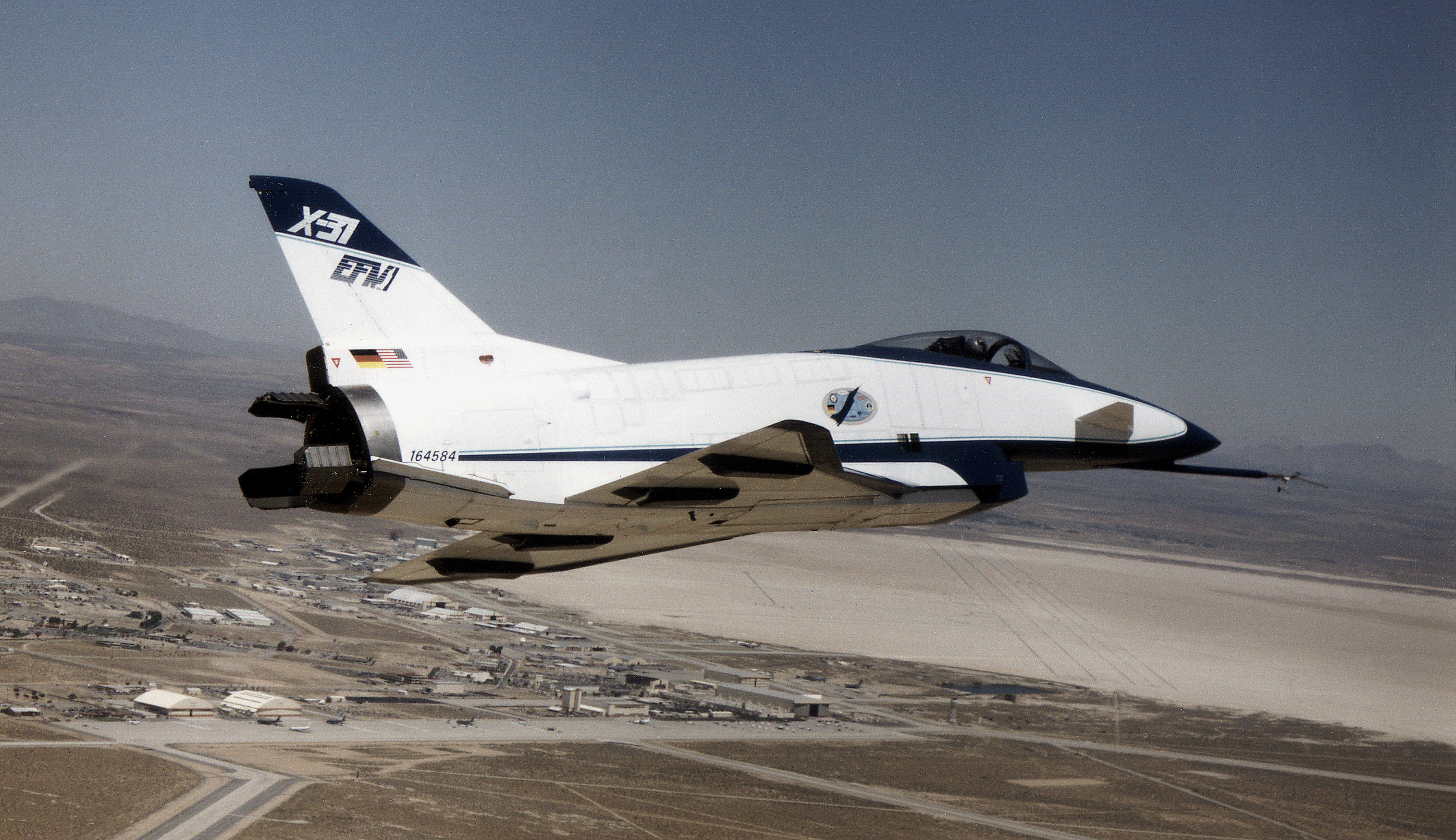 The first Rockwell-MBB X-31 (Bu. No. 164584) flies over Edwards Air Force Base, California, in 1993. Aircraft 584 completed 292 flights during the Enhanced Fighter Maneuverability (EFM) program before being lost on January 19, 1995 when icing in the nose probe caused the flight control computer to receive bad data. German test pilot Karl-Heinz Lang ejected after the aircraft became uncontrollable.